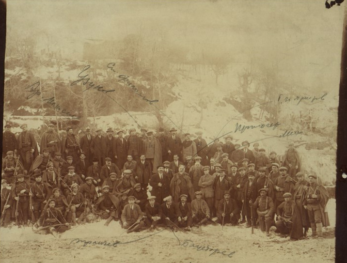 IMARO